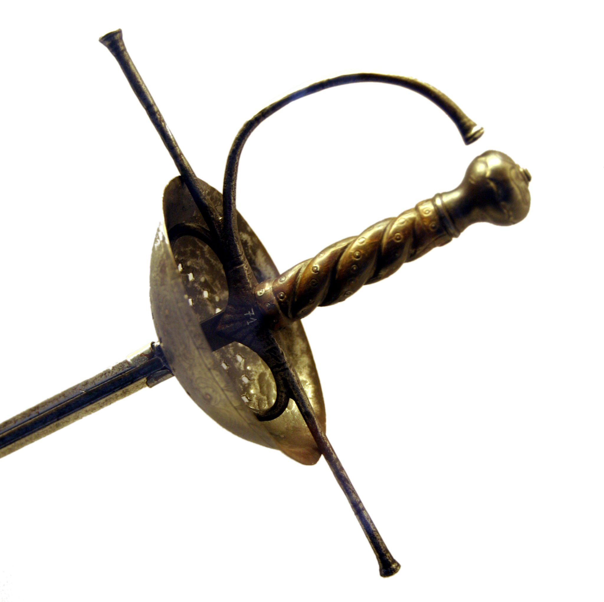 Rapier on display at Castel of Chillon